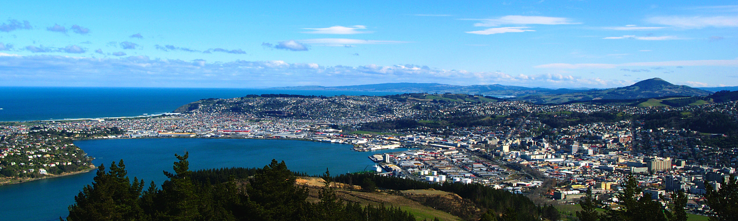 Dunedin, New Zealand, View from Opoho to the City